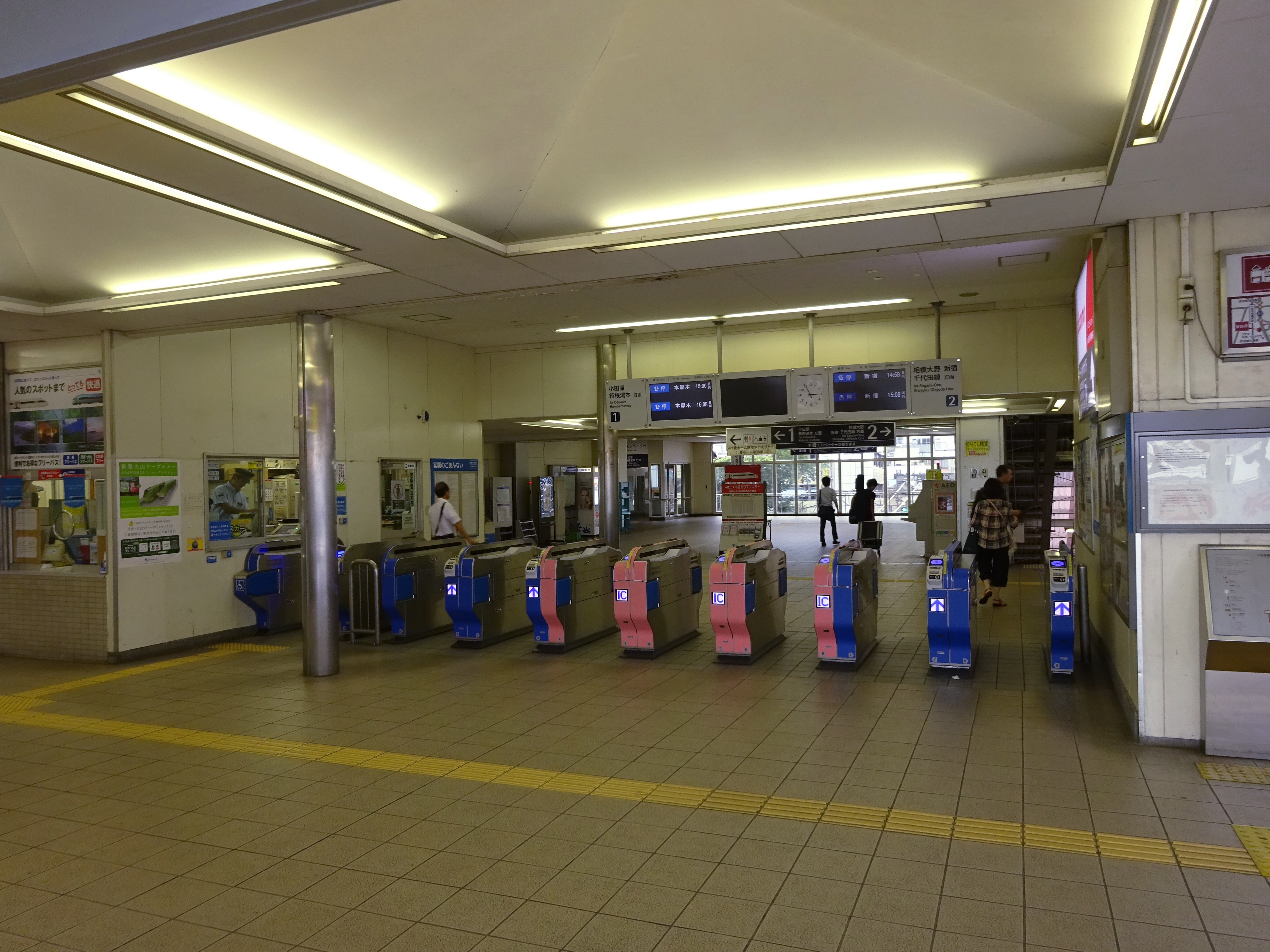 Ticket gate of Odakyū-Sagamihara Station